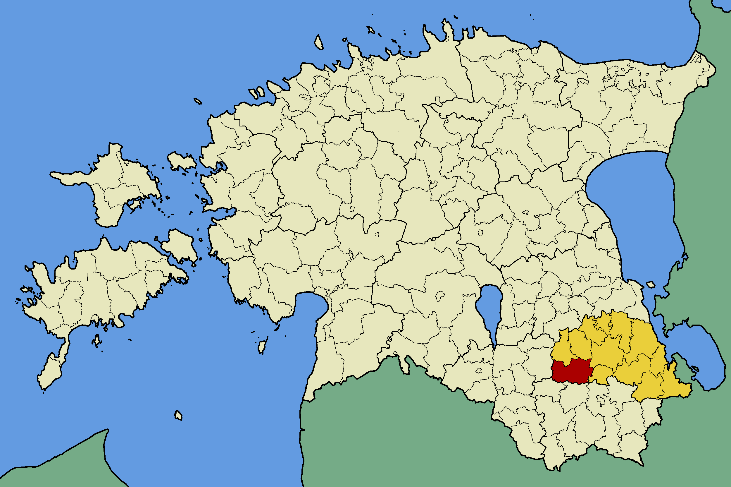 Map of Estonia with borders of municipalities (parishes). Põlva county and Kanepi municipality emphasized.